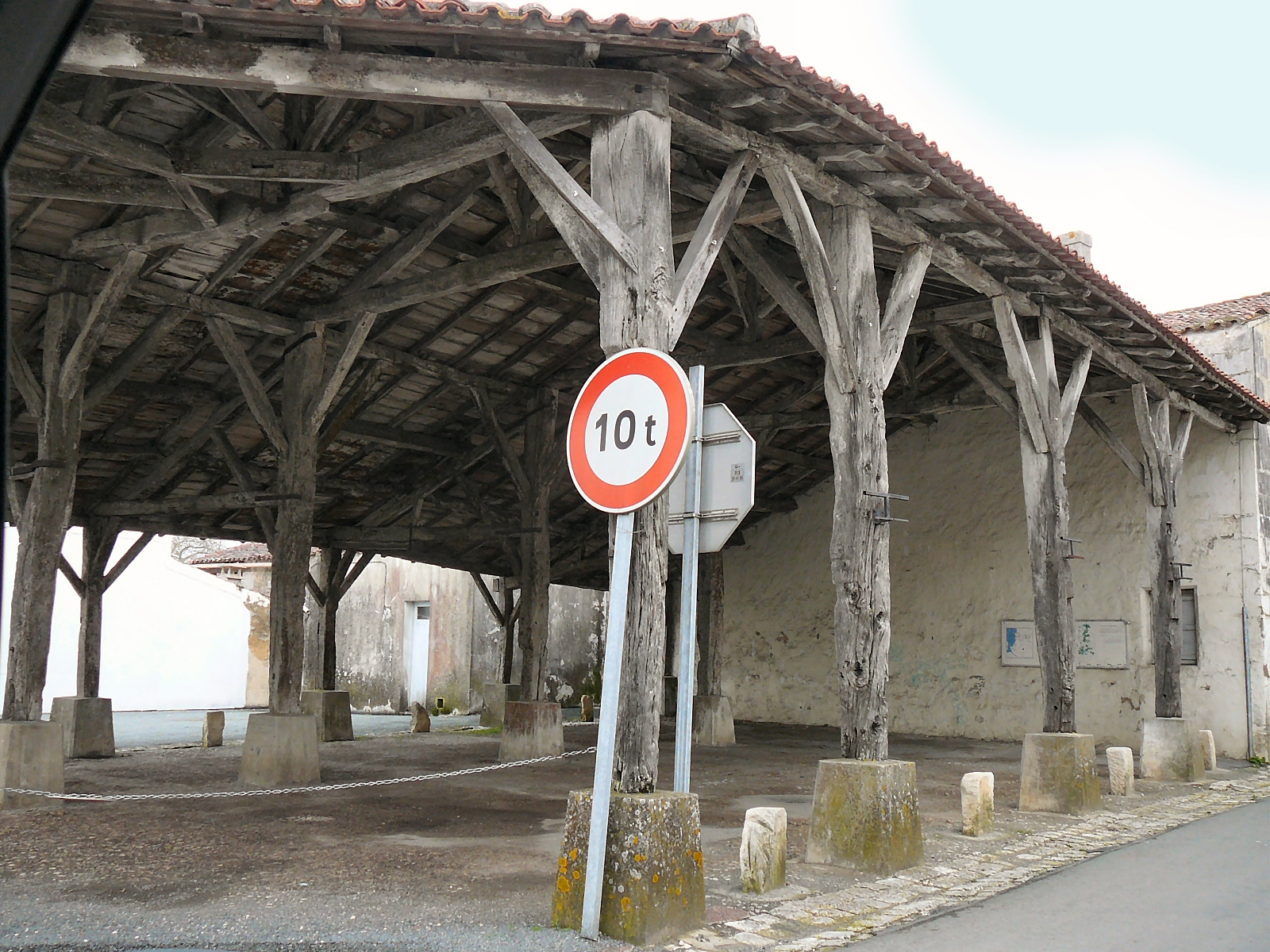 The ancient covered market. Saint-Jean-d'Angle, Charente-Maritime, Poitou-Charentes, France, Europe.